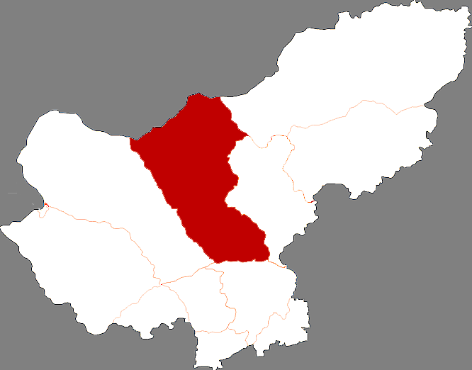 Locator map of Abag Banner in Xilingol League, Inner Mongolia, China